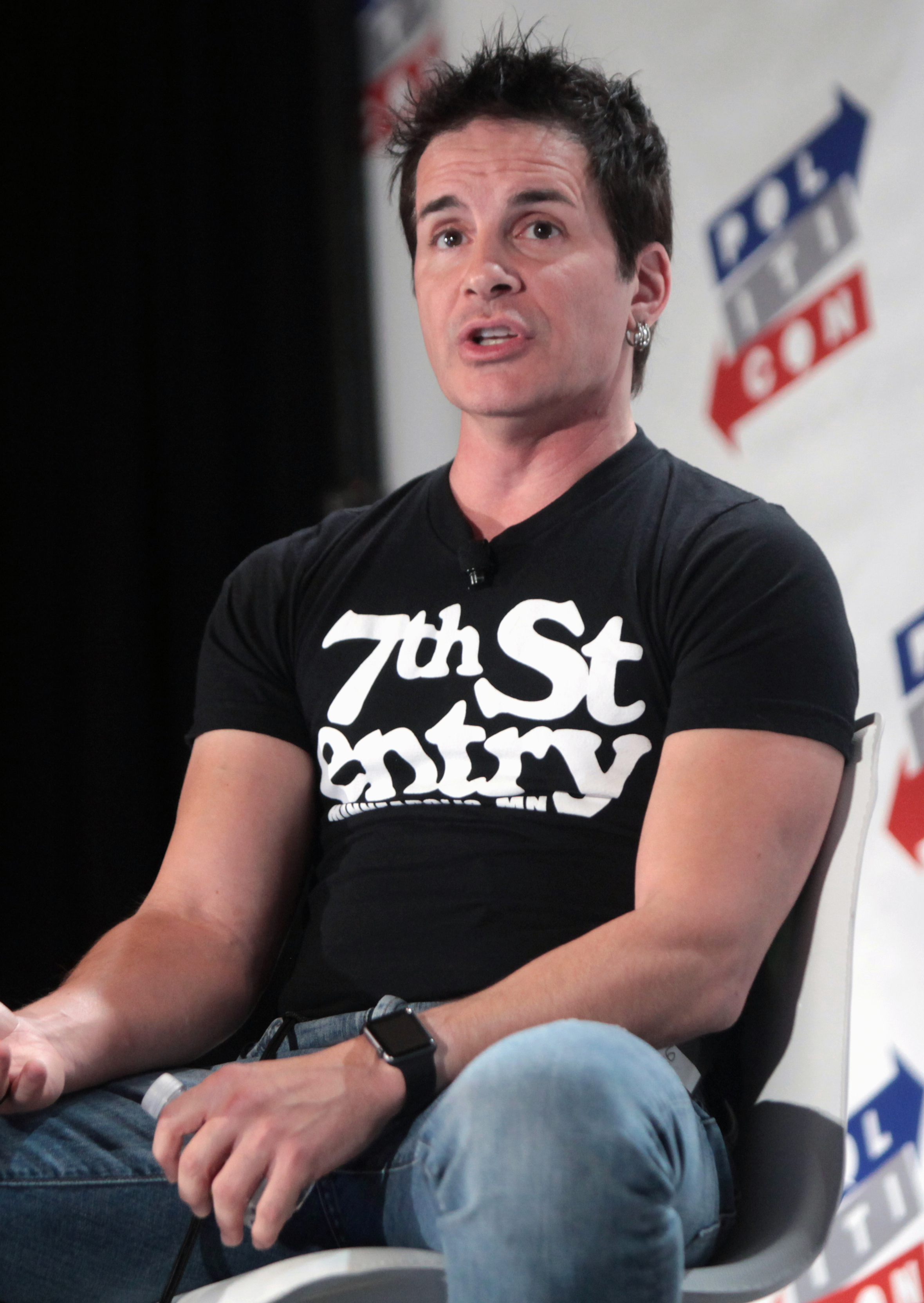 Hal Sparks speaking at Politicon in Pasadena, California.